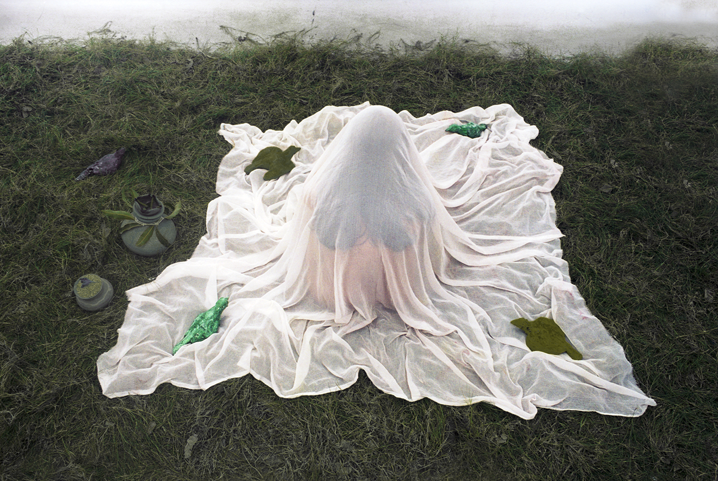 This work is from Conceptual Art Collection by Contemporary Indian Artist Diwan Manna, from Shores of the Unknown